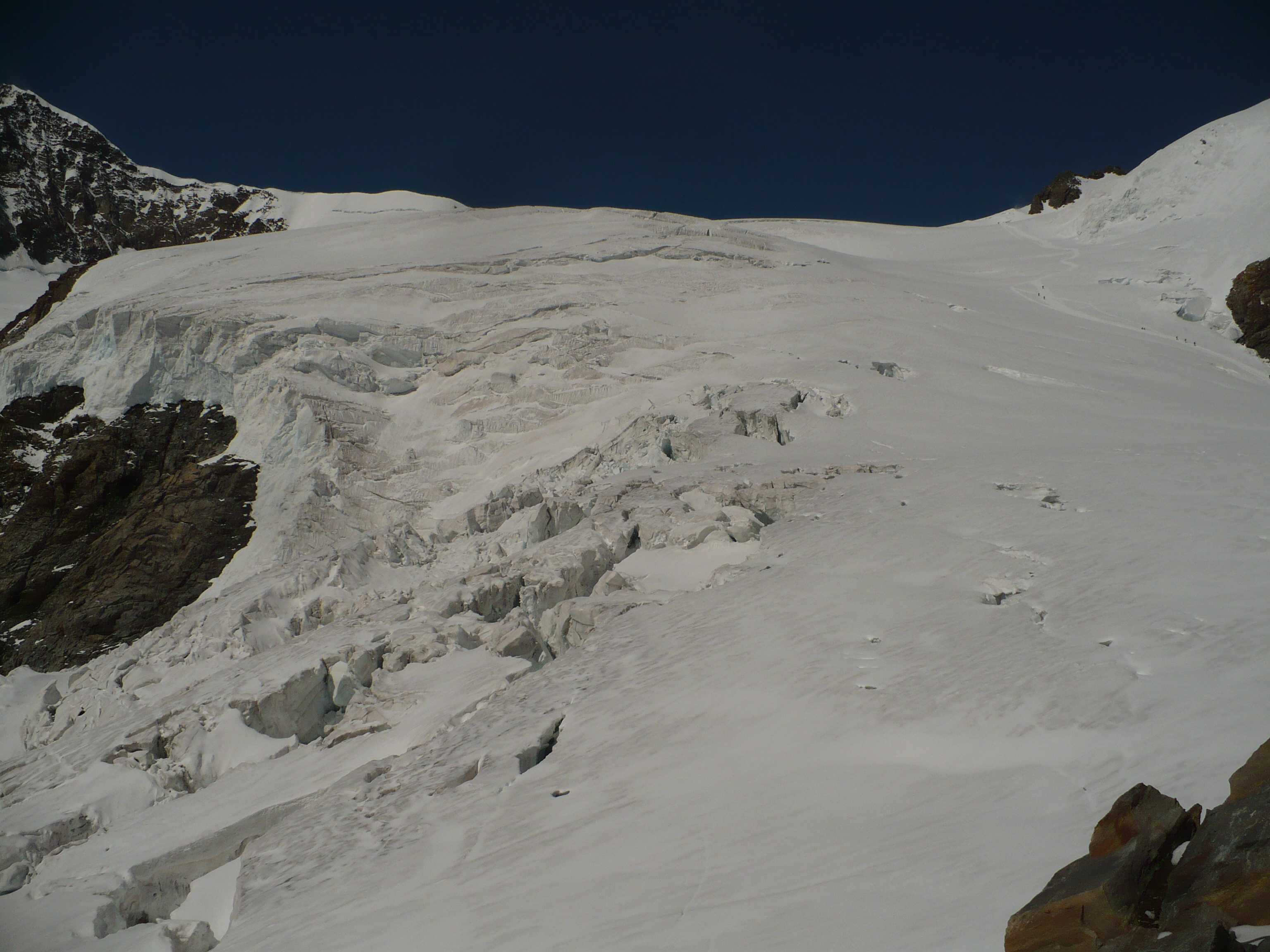 Lys glacier - Monte Rosa massif - Pennine Alps